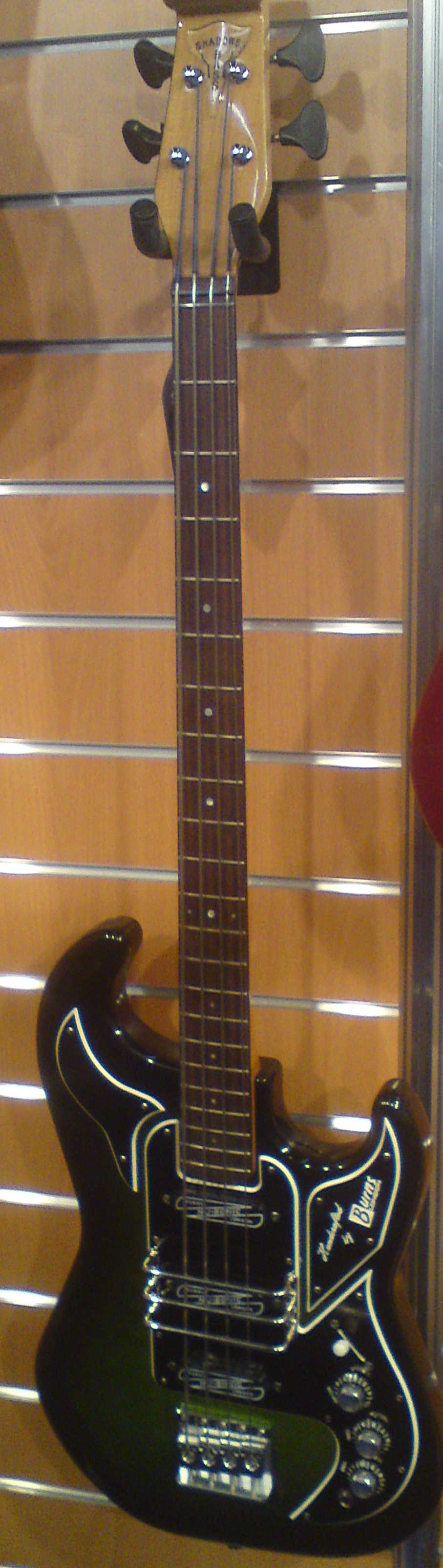 Shadows Bass